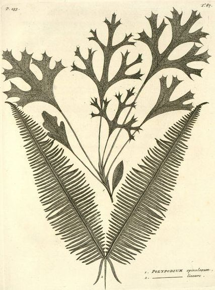 This is a scan of tab. 67 (adjacent to page 233) from Nicolaas Burman's 1876 Flora Indica. It shows two plant species, which were then considered species of Polypodium. The upper plant, labelled Polypodium spinulosum, but now known as Synaphea spinulosa, is of particular interest. Although described as a fern from Java, it is one of two plants listed in Flora Indica that are in fact endemic to southwest Western Australia. The specimens upon which the description and this image are based are now thought to have been collected during the 1696 voyage to the Swan River by Willem de Vlamingh. This represents the first scientific collection of plants from Western Australia, and the first formal publication of a plant from Western Australia.